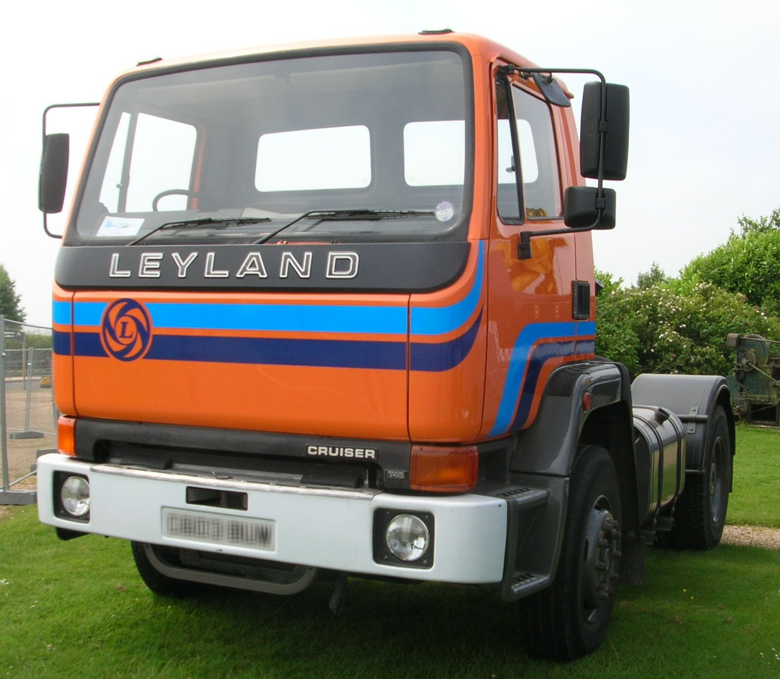 A Leyland T45 Cruiser tractor unit, first registered in 1985. This vehicle was photographed attending the 2007 Classic Commercial Motor Show at the Heritage Motor Centre, Gaydon, UK.